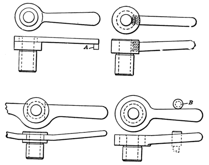 Four different types of dogs used to remove large renewable bushings. The first type shows how the end can be bent down to wrap the dog around the edge of the jig plate and the last type shows how a pin can be used to keep the dog from rotating.